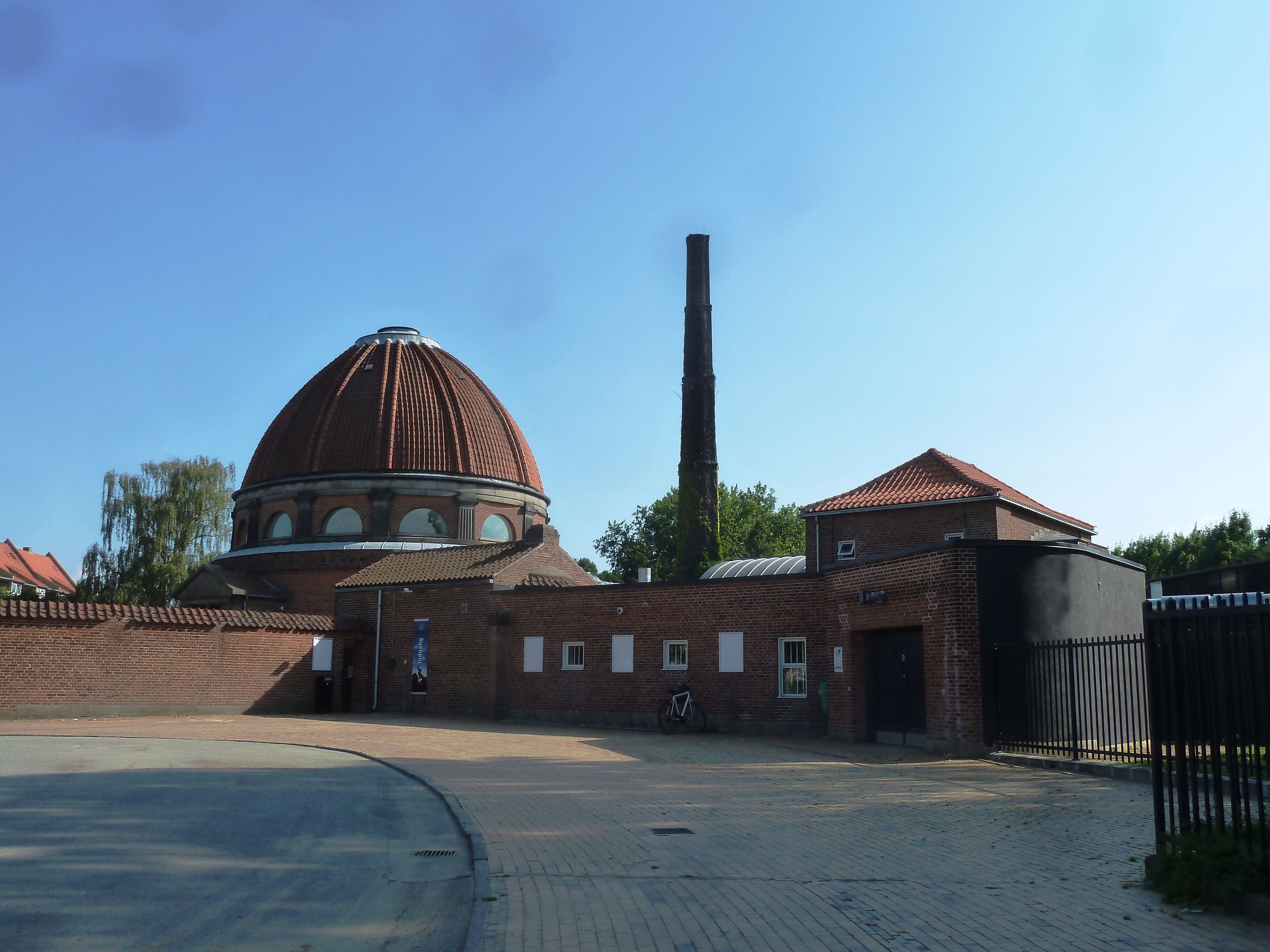 The main entrance to Bispebjerg Cemetery in Copenhagen, Denmark